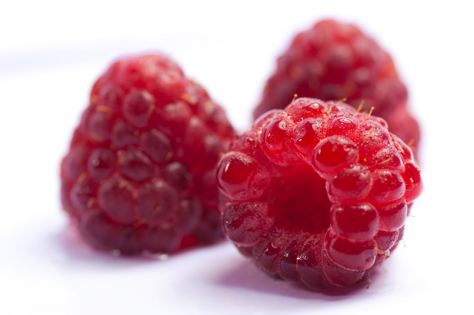 Close-up of raspberries